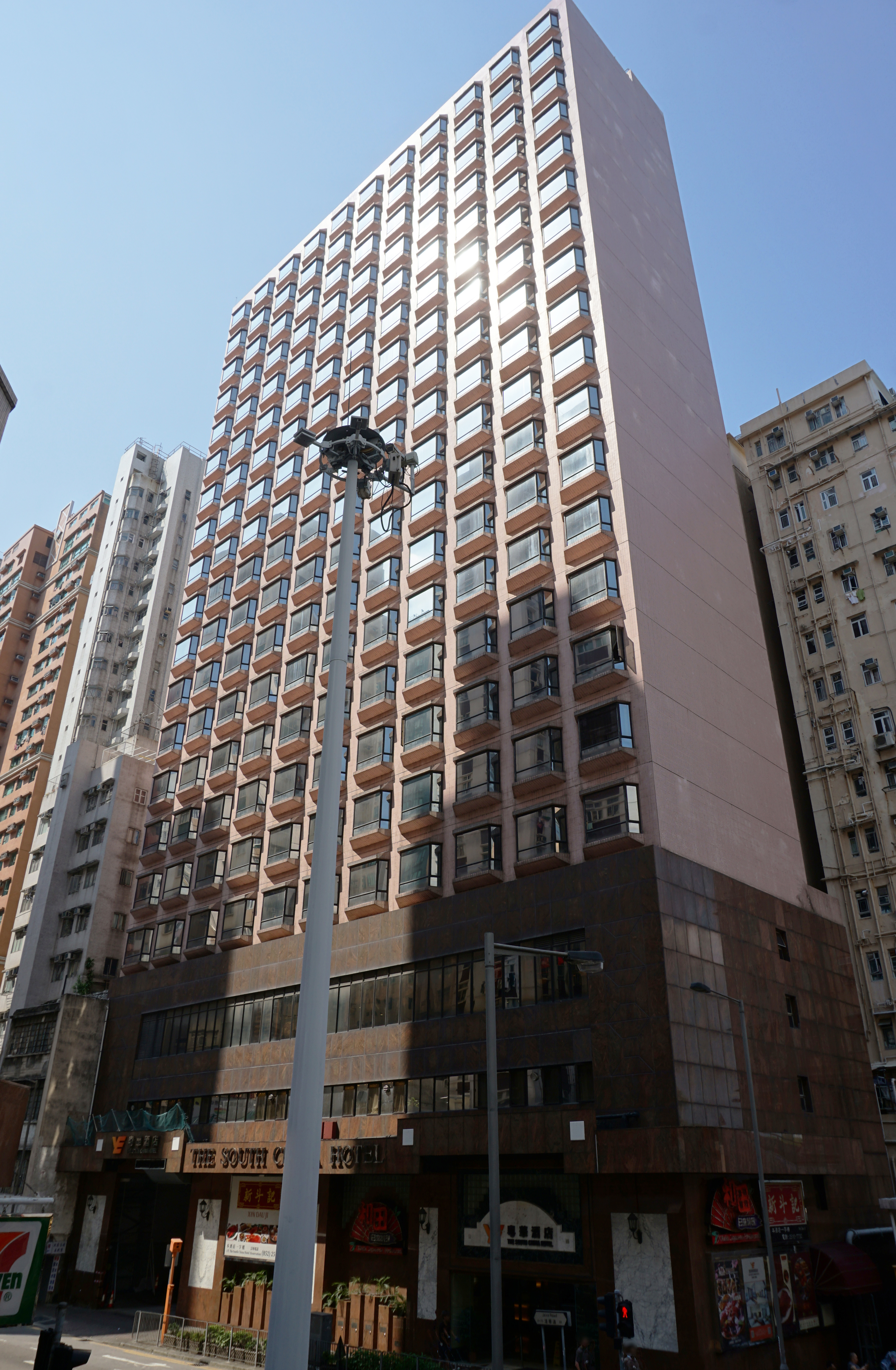 The South China Hotel in North Point, Hong Kong.